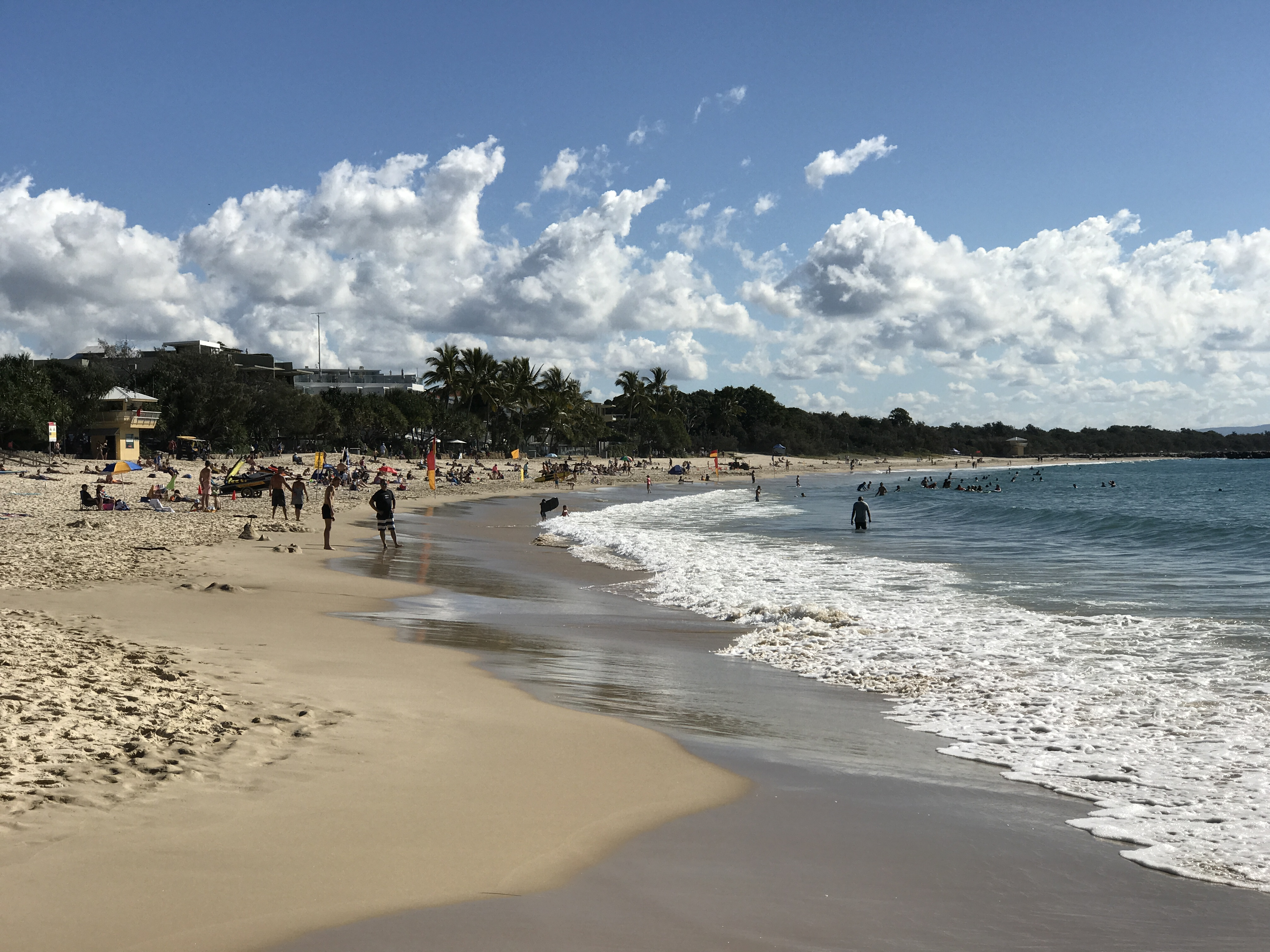 Noosa Heads beach, Queensland